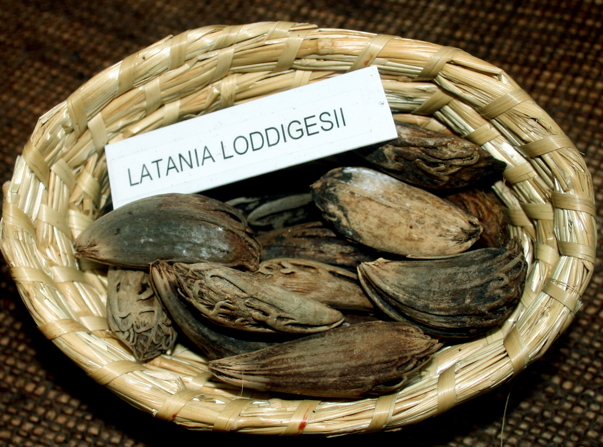 Seeds of palm (Latania loddigesii. Taken at Botanic garden Prague.)